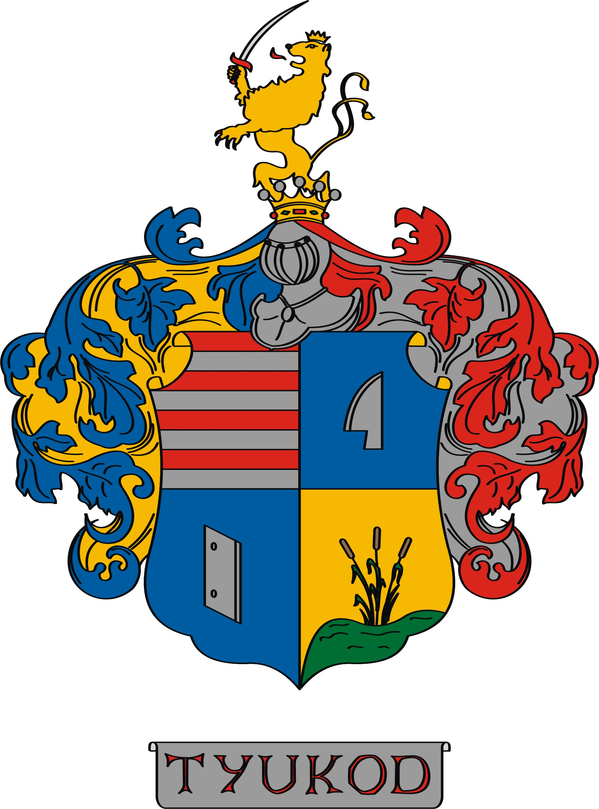 Coat of arms of Tyukod, Hungary